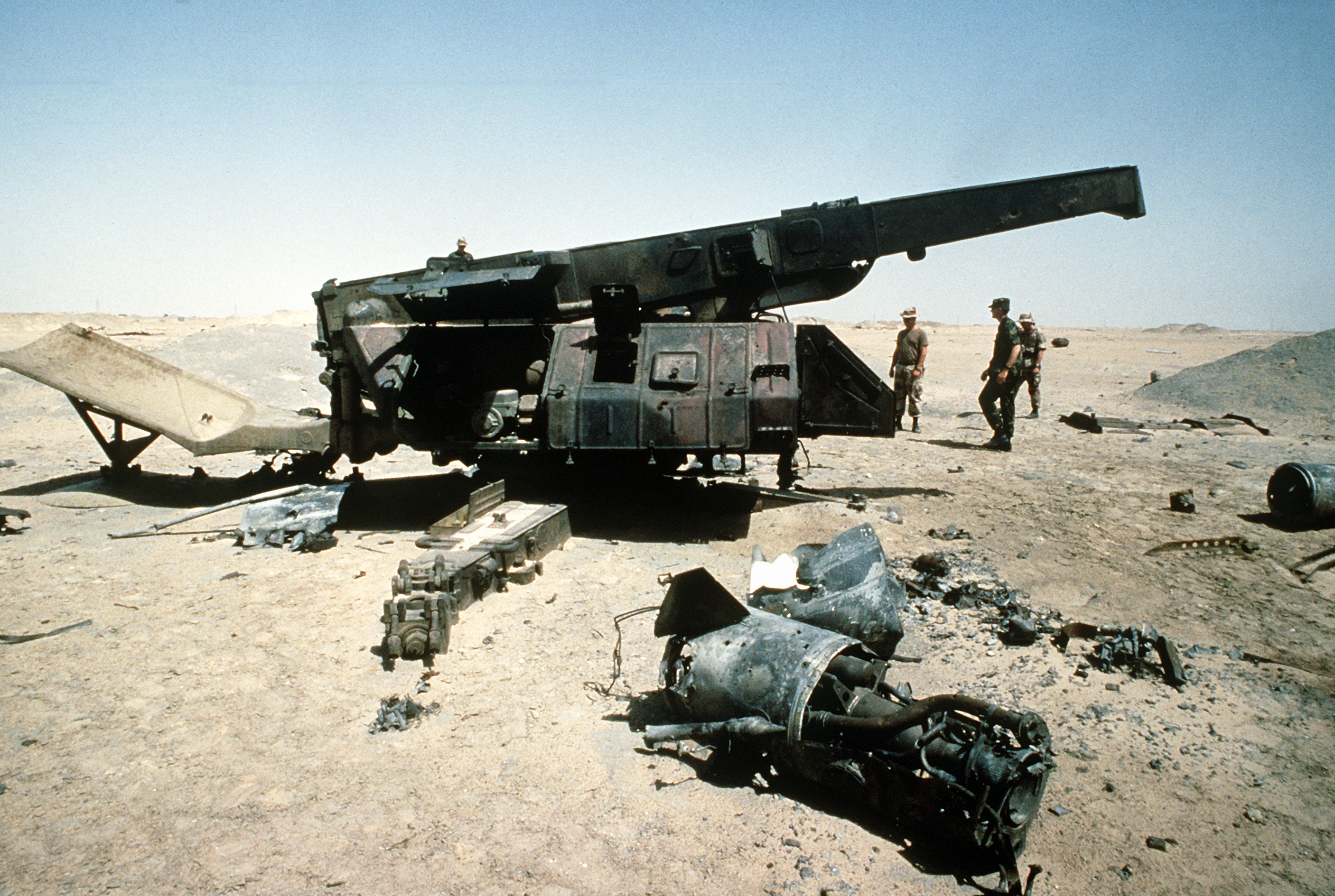 U.S. military personnel look at a Soviet-made SA-2 surface-to-air missile launcher demolished in an Allied attack during Operation Desert Storm. A section of the missile is in the foreground.